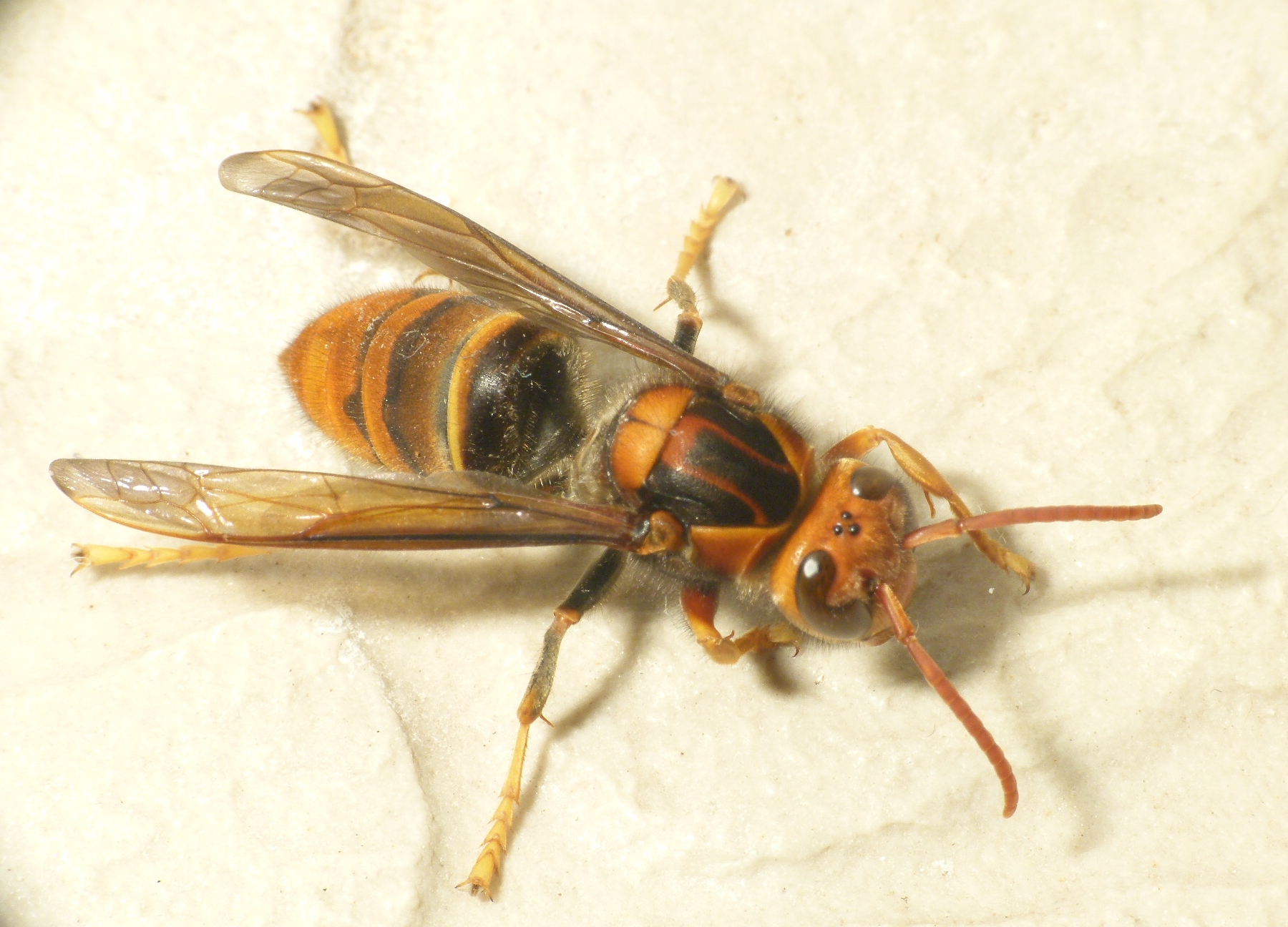 Vespa velutina, Munsiyari, India